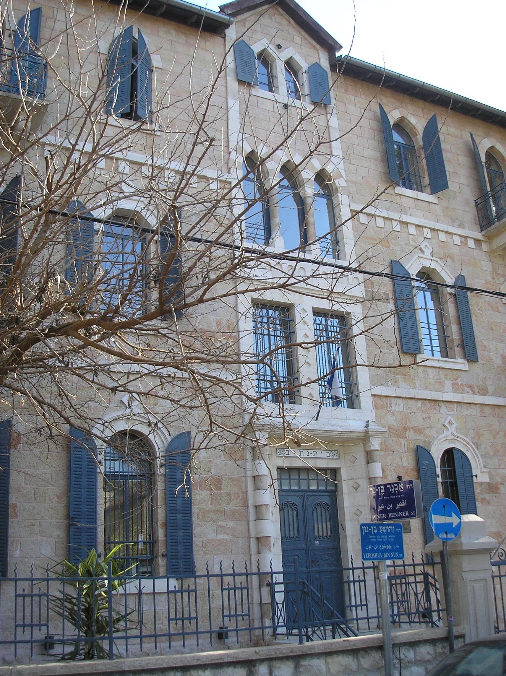 Jerusalem, house "בית נתיב" in greek colony, Yehoshua Bin-Nun St., 13, at the corner of "Avner Ban-Ner St." Picture taken by deror avi on 26th January 2007.